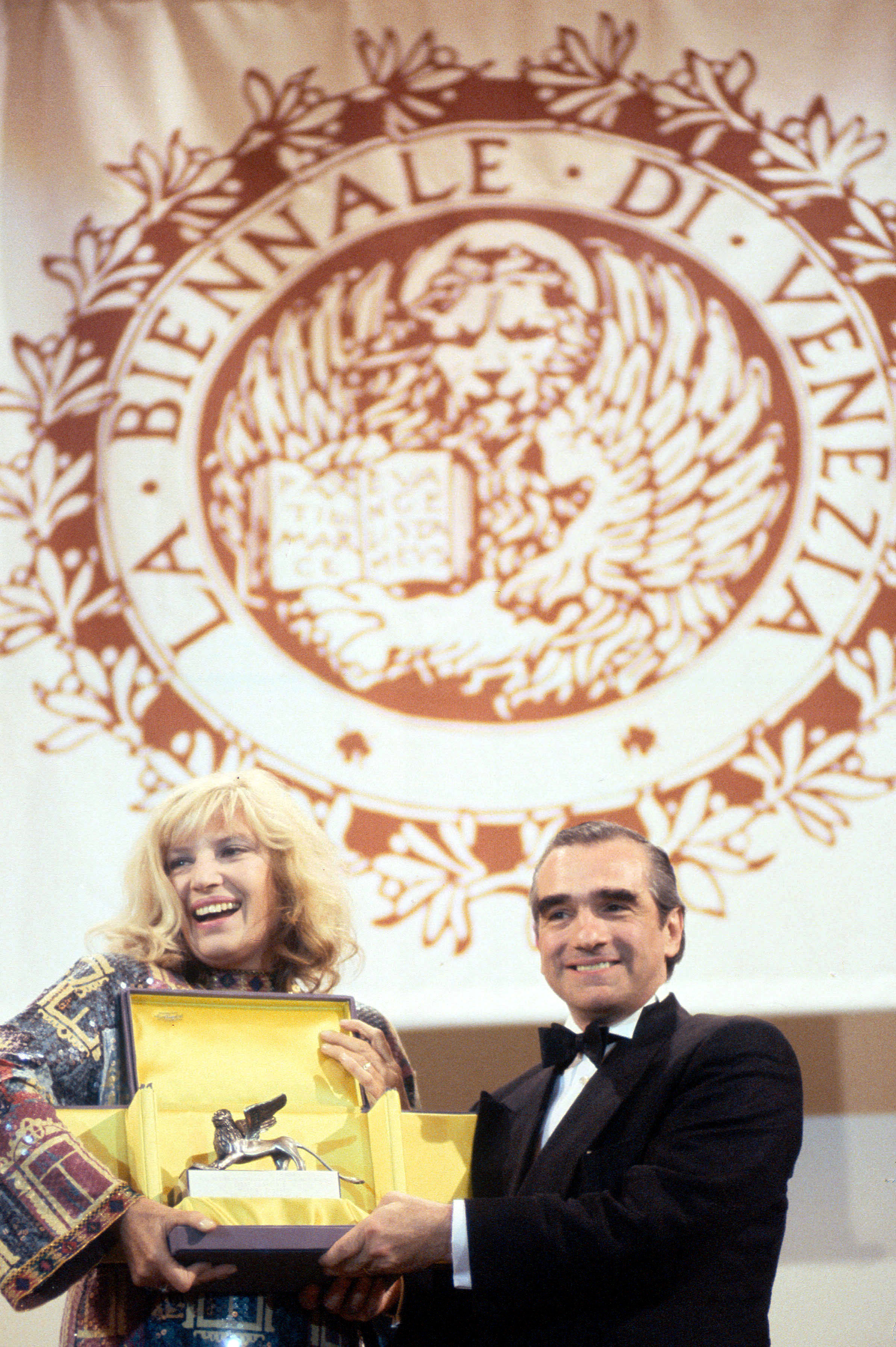 Martin Scorsese, 1995